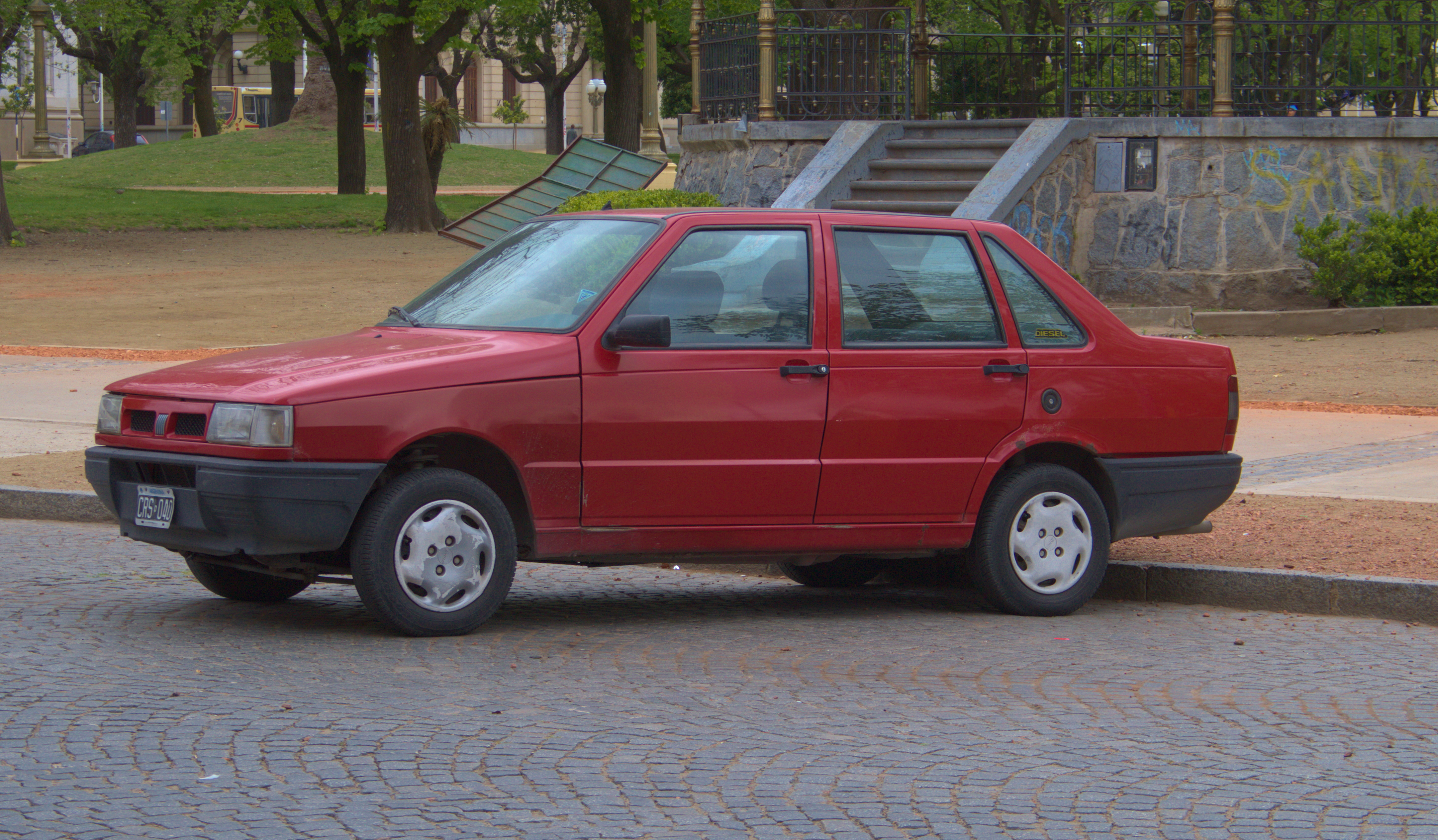 Fiat Duna parked in Tandil, Argentina